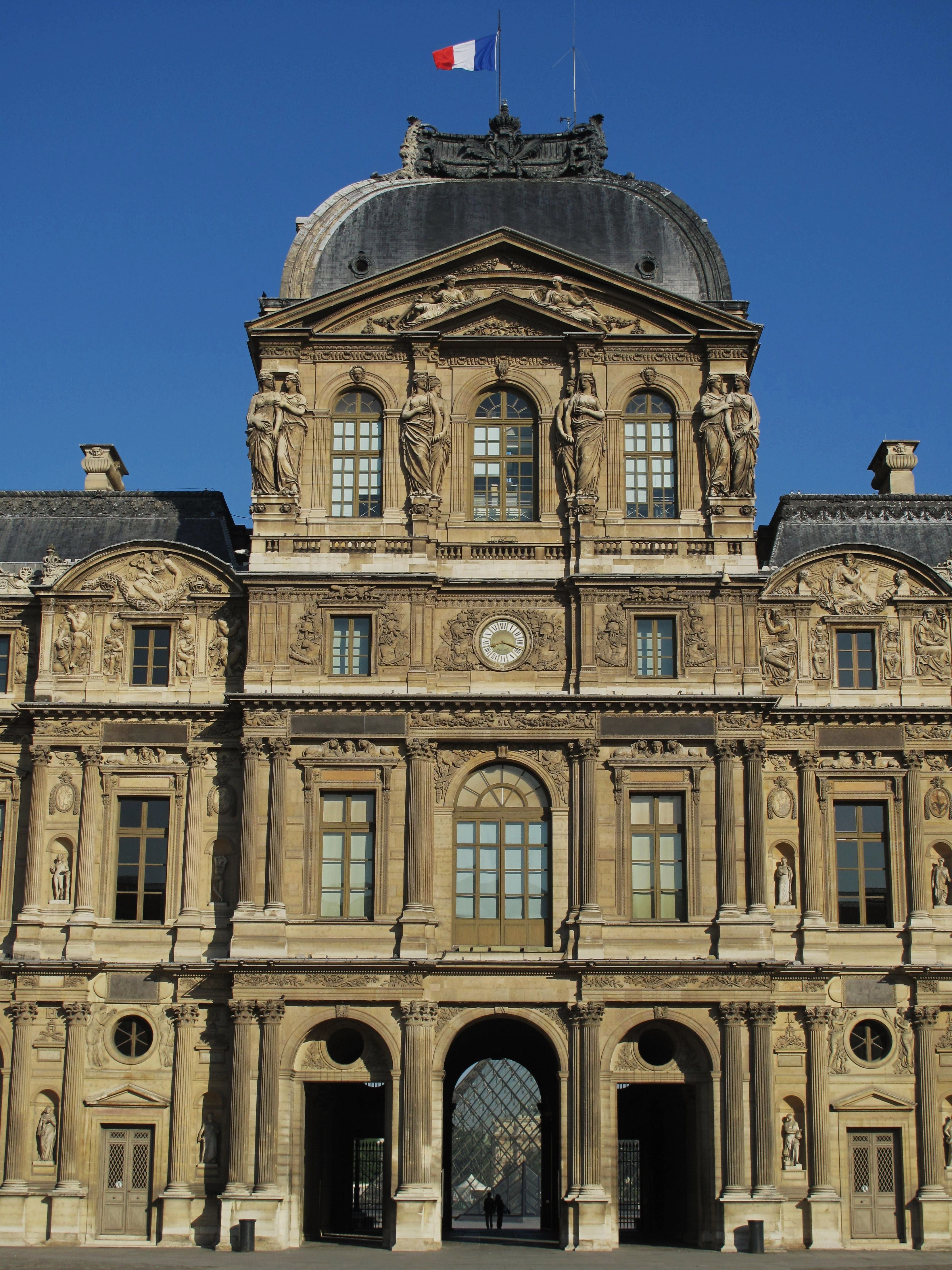 The Pavillon de l'Horloge, in the Cour Carrée du Louvre, Paris.